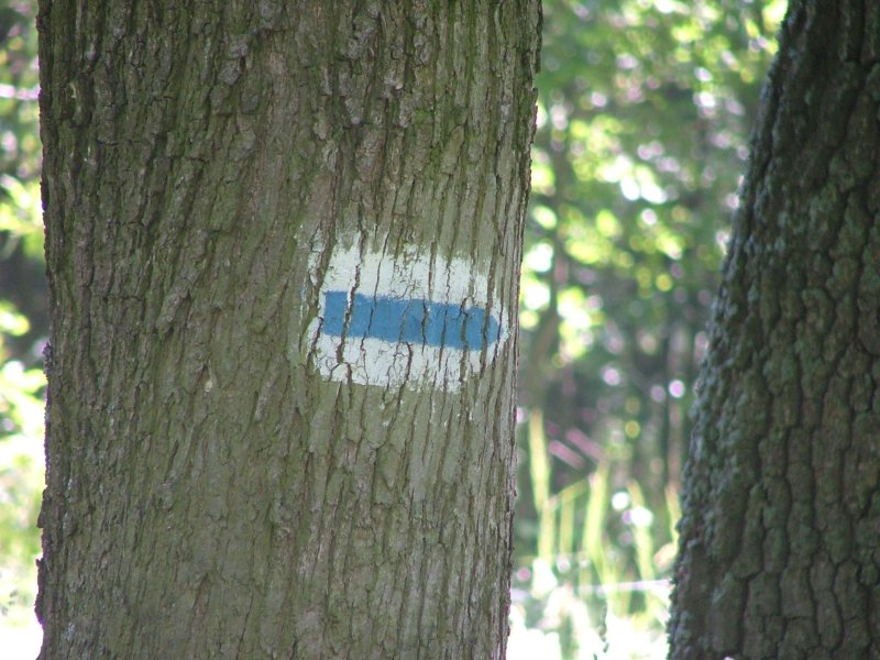 Photograph of the blue sign of the Country-wide Blue Trail